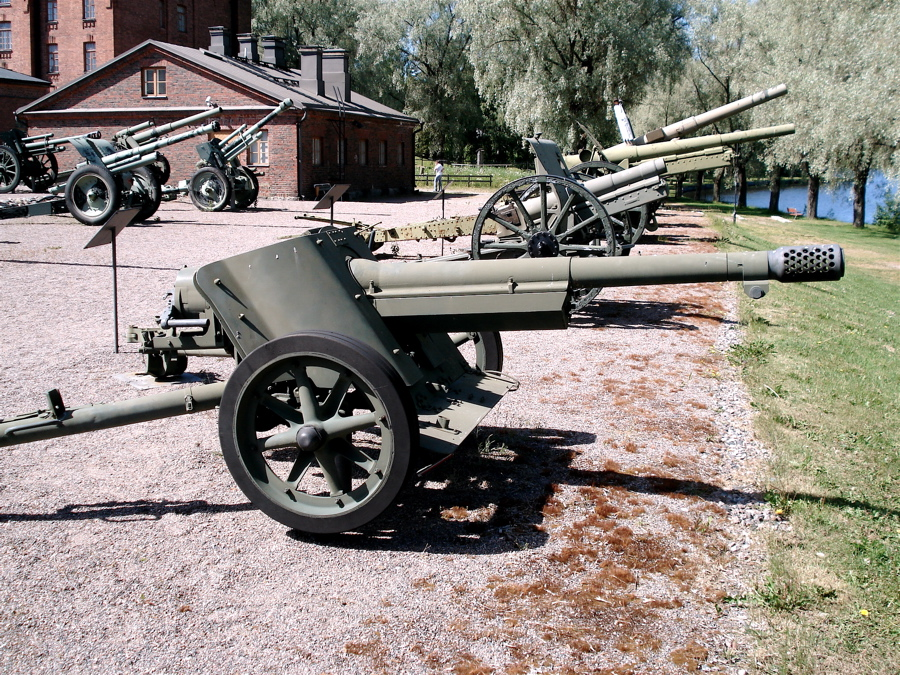 French 75 mm M1897 gun mounted on carriage from the german 50 mm PaK 38 anti-tank gun, displayed in Hämeenlinna Artillery Museum. The 7,5 cm PaK 97/38 anti-tank gun was produced by Germany during World War II as an emergency measure to counter Russian T-34 and KV tanks on the Eastern Front. Photo taken on June 18, 2006. Source: Photo by me, User:Balcer.